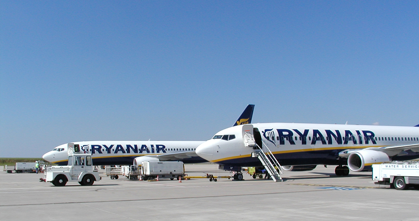 Ryanair Boeing 737-800s at Frankfurt-Hahn